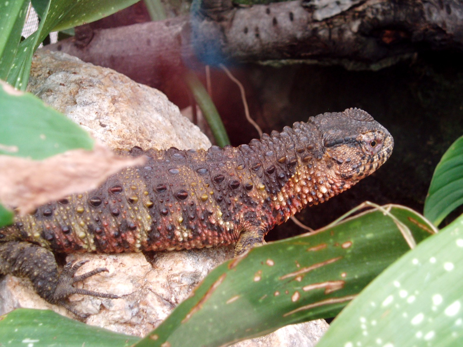 Chinese crocodile lizard (Shinisaurus crocodilurus), Malmö reptilcenter, Sweden